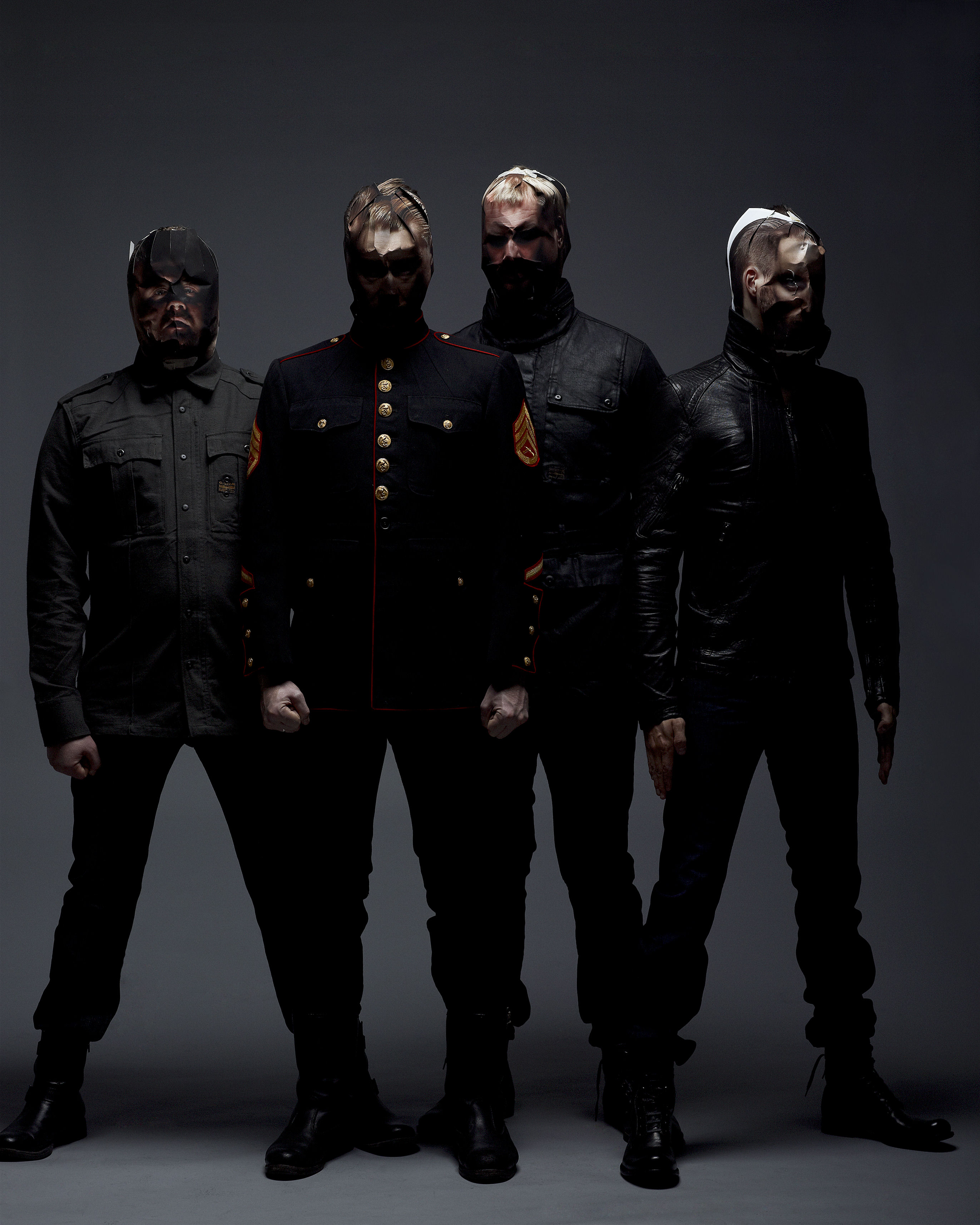 Press photo of the Norwegian band Shining, taken for the release of their fifth album, Blackjazz.